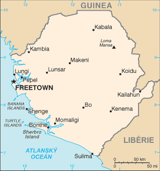 Map of Sierra Leone with Czech description.